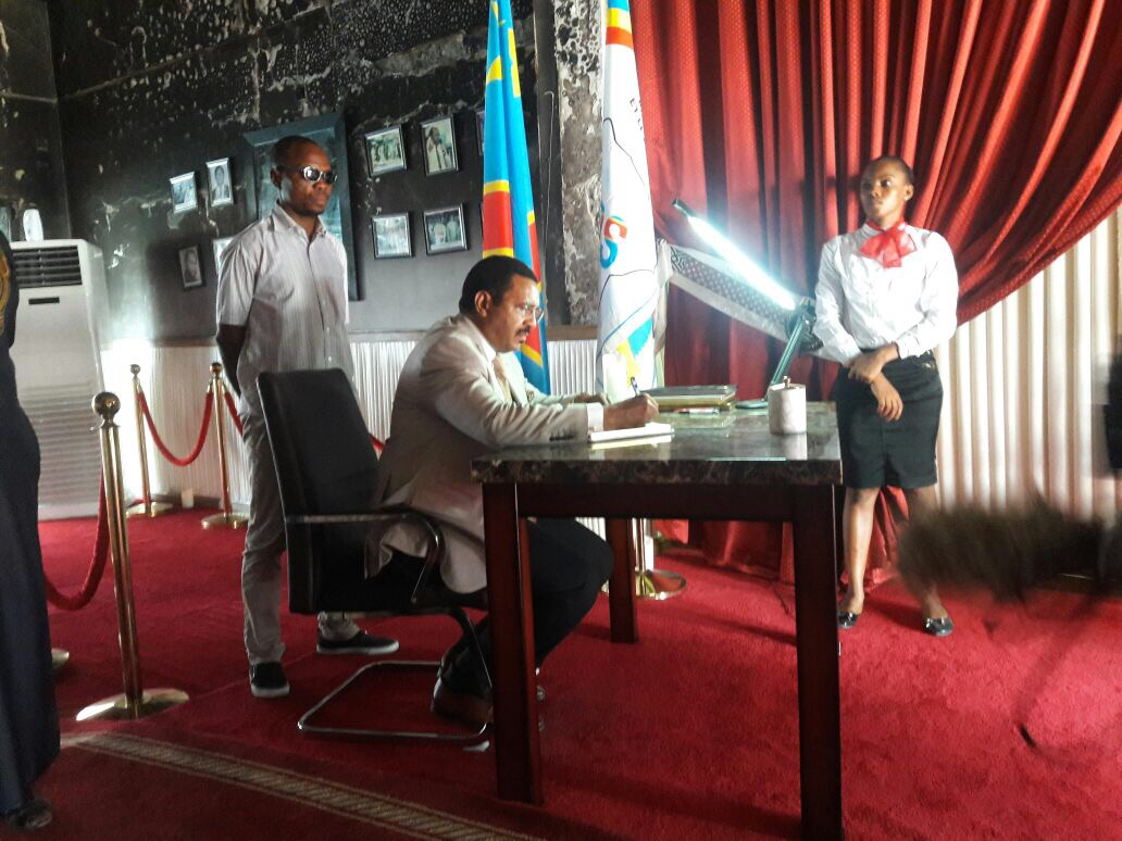 The deputy Special Representative of the UN Secretary-General in the DRC, Mamadou Diallo, on behalf of MONUSCO, signs the book of condolences for the death of Etienne Tshisekedi opened at the UDPS national headquarters in Limite. Diallo was welcomed by UDPS Deputy Secretary General Mme Rose Boyata.